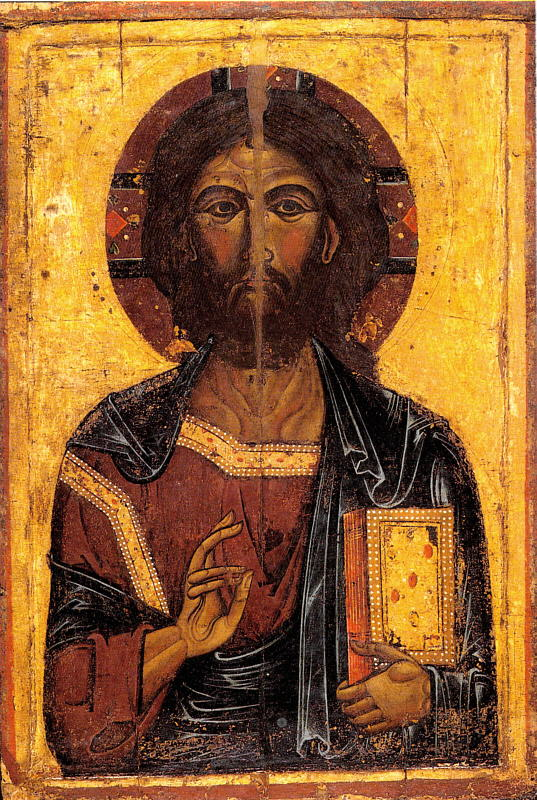 The icon of Christ Pantocrator from Gavshinka, a village near Yaroslavl